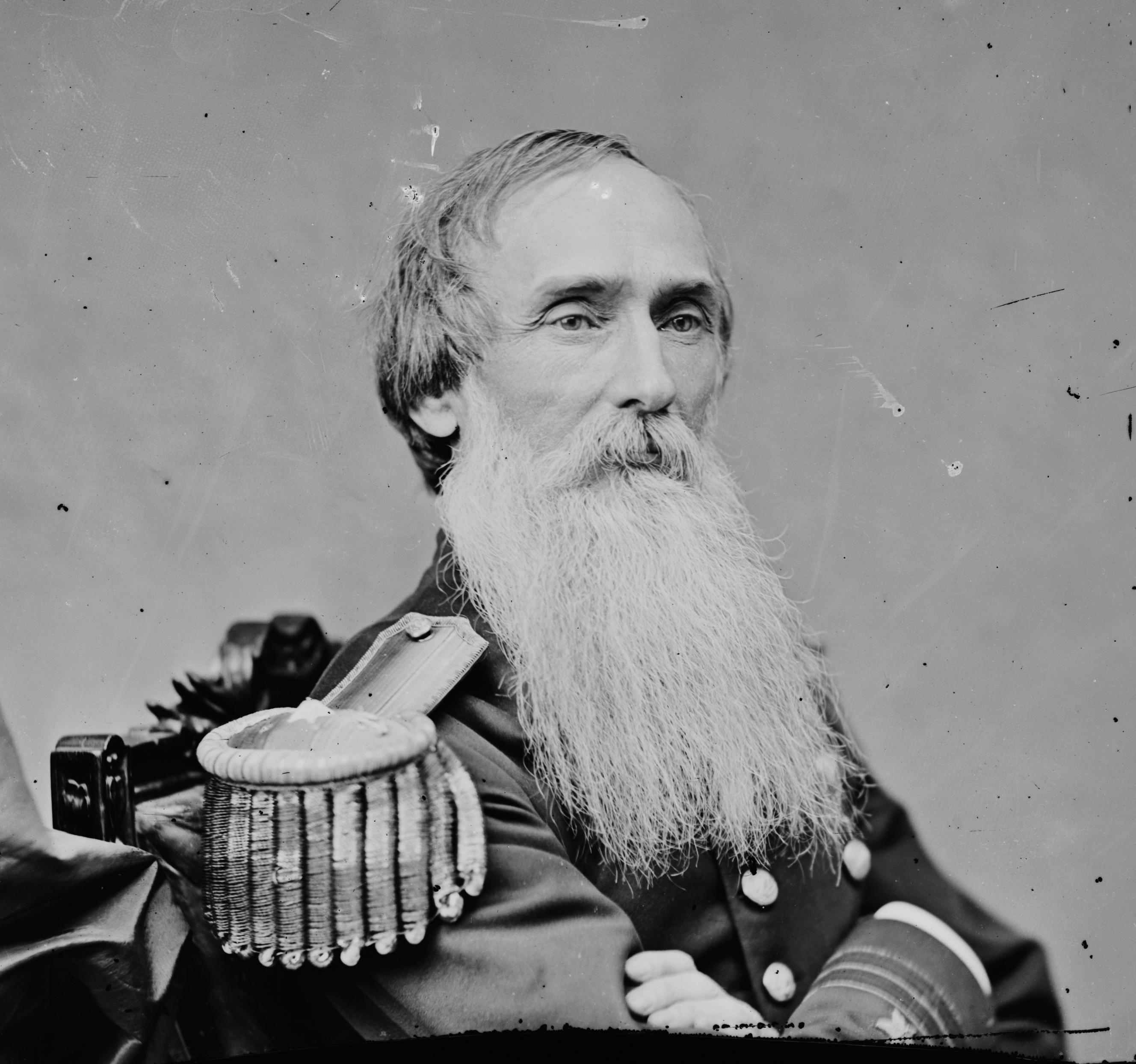 Benjamin F. Sands. Library of Congress description: "Adm. B. F. Sands, U.S.N."